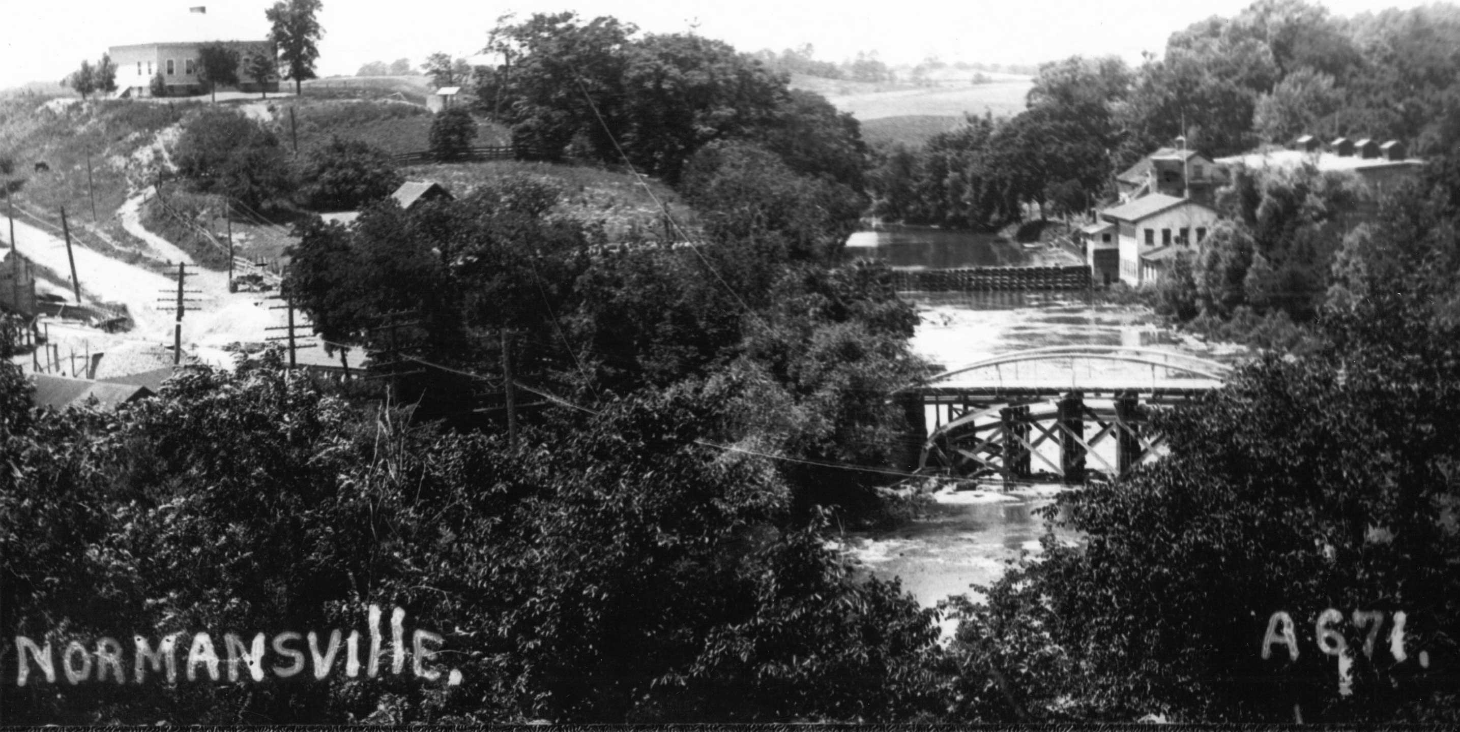 View of the hamlet of Normansville, at the time in town of Bethlehem New York; today town of Bethlehem on left, city of Albany on right. Normans Kill (creek) in the middle. Ice house top right corner, school house top left.